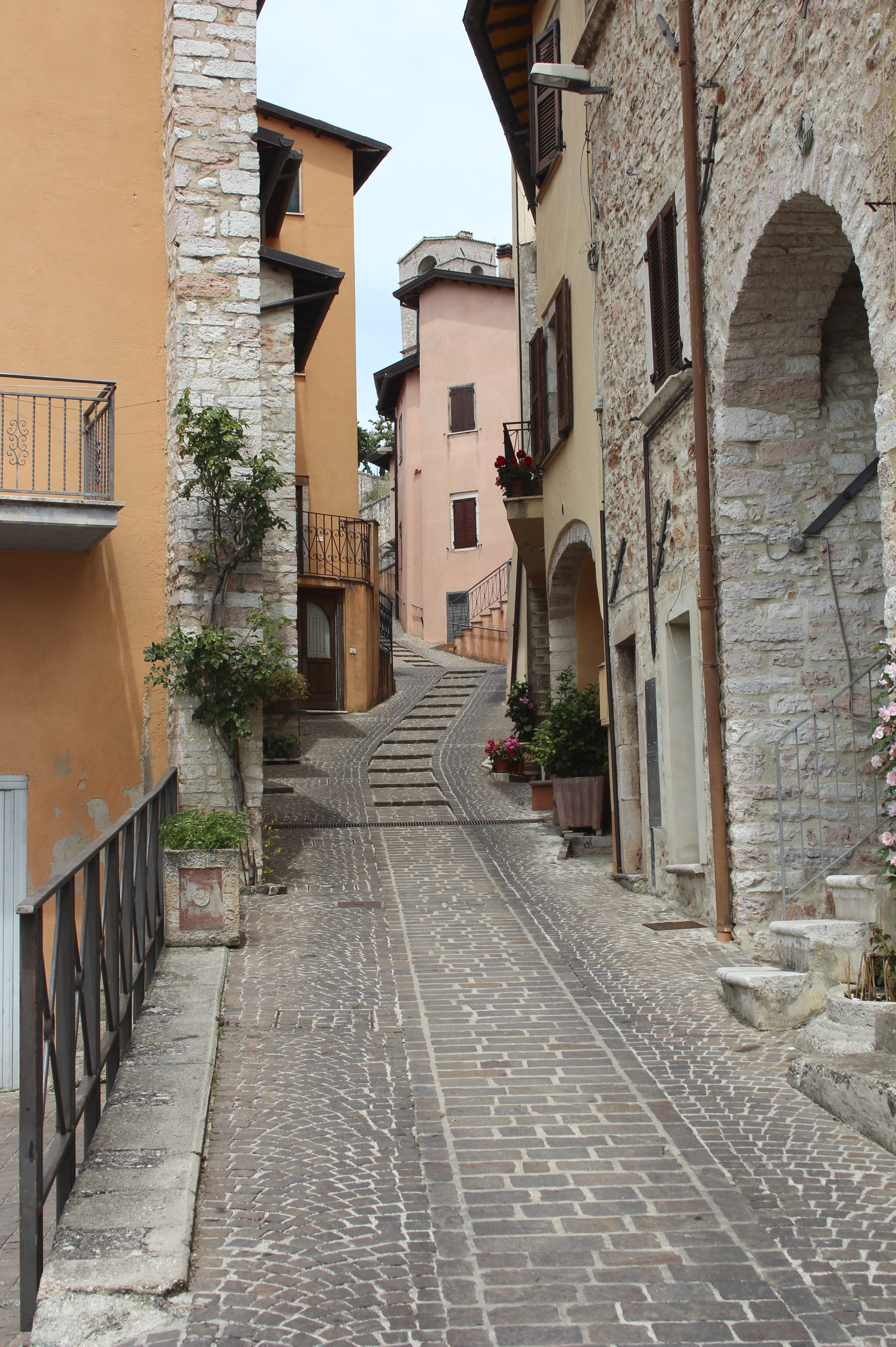 streets in Cerreto di Spoleto, Province of Perugia, Umbria, Italy